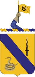 14th Armored Cavalry Regiment coat of arms from [1] Symbolism: The shield is yellow for cavalry, the bend is in the color of the uniform worn at the time of the regimentâ€™s formation (1901). The kris is for Moro campaigns and the rattlesnake for service on the Mexican border. Background: The distinctive unit insignia was originally approved for the 14th Cavalry Regiment on 30 April 1940. It was redesignated for the 14th Armored Cavalry Regiment on 6 April 1949. It was redesignated with the description updated for the 14th Cavalry Regiment on 28 August 2000. The insignia was amended to correct the description on 7 January 2004.